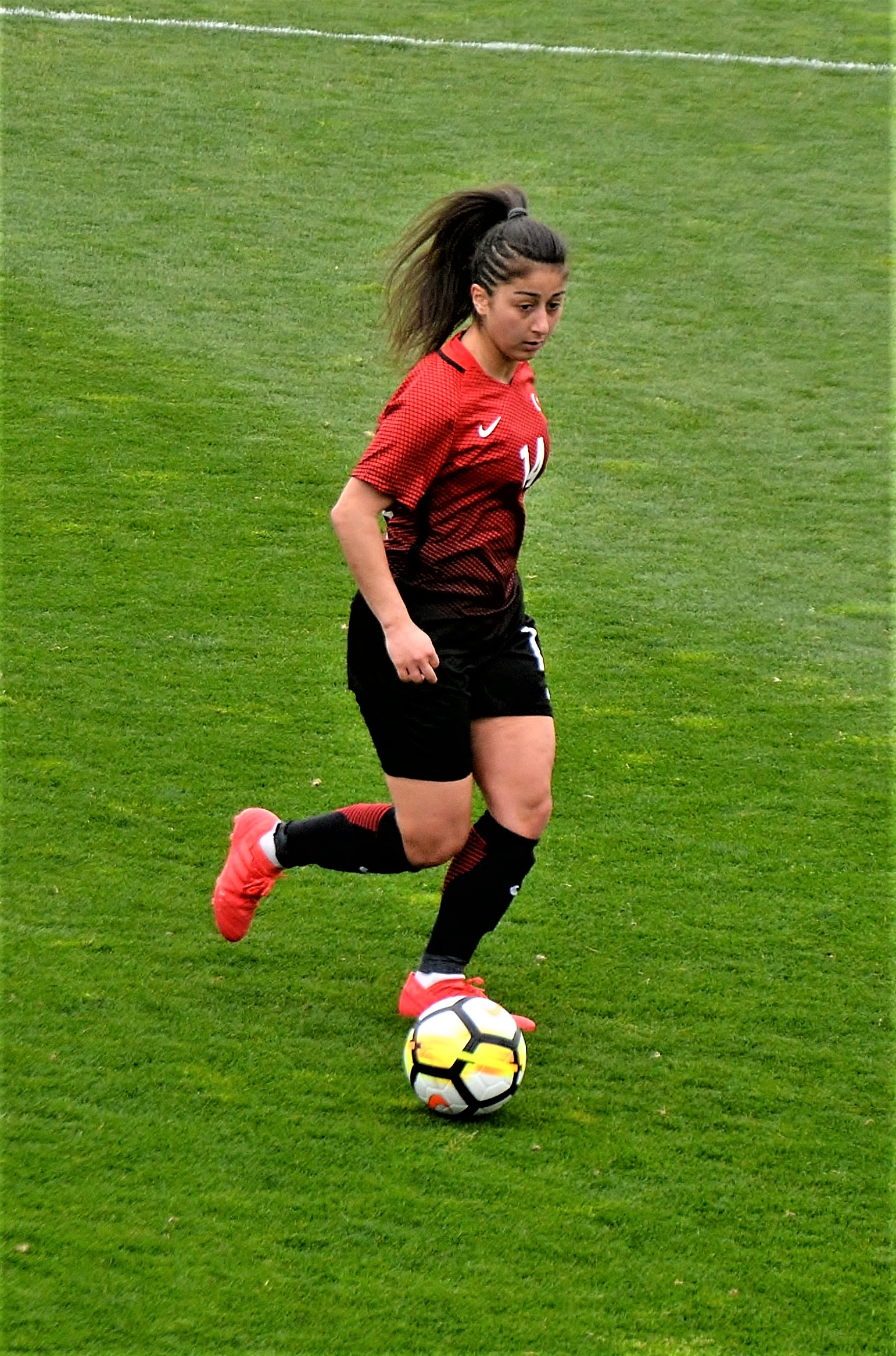 Selen Altunkulak playing for Turkey women's national football team in the friendly home match against Estonia at TFF Riva Facility on 7 April 2018.